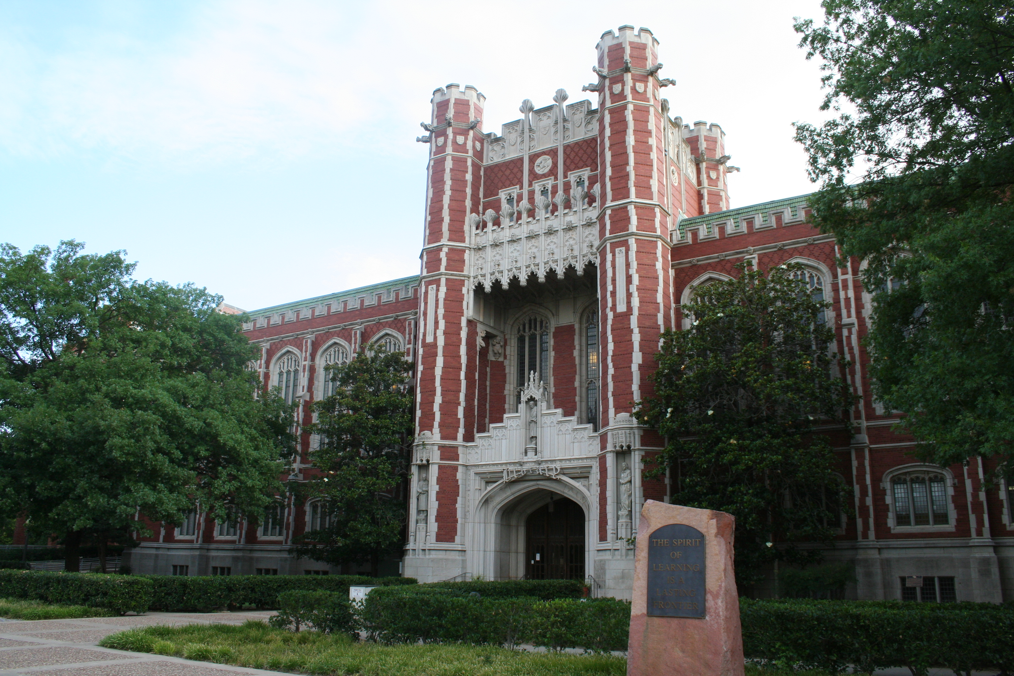 University of Oklahoma, Bizzell library, south entrance.